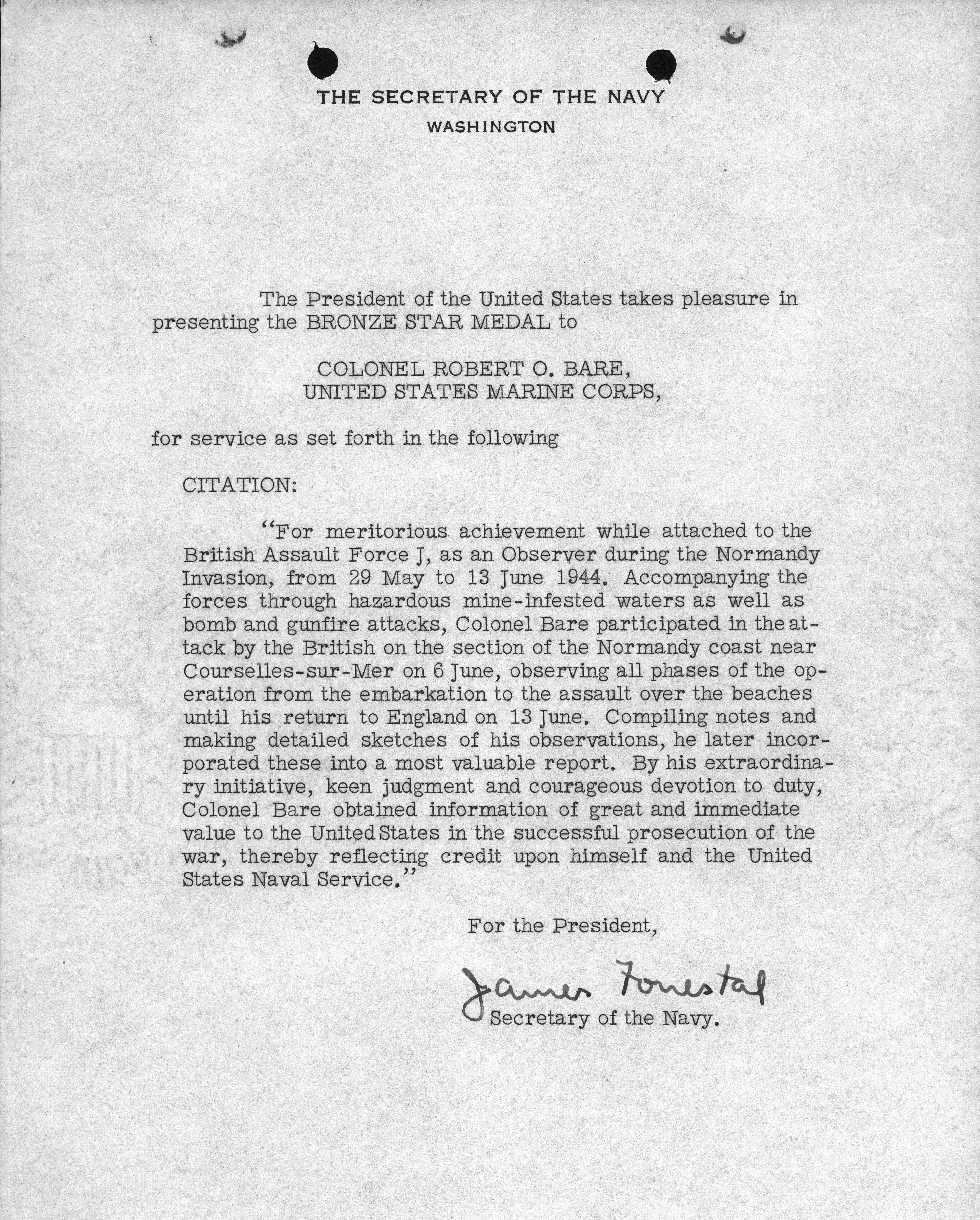 Robert Bare was awarded the Bronze Star Medal for his participation in the Normandy Invasion. From the Robert O. Bare Collection (COLL/150) at the Marine Corps Archives and Special Collections OFFICIAL USMC PHOTOGRAPH